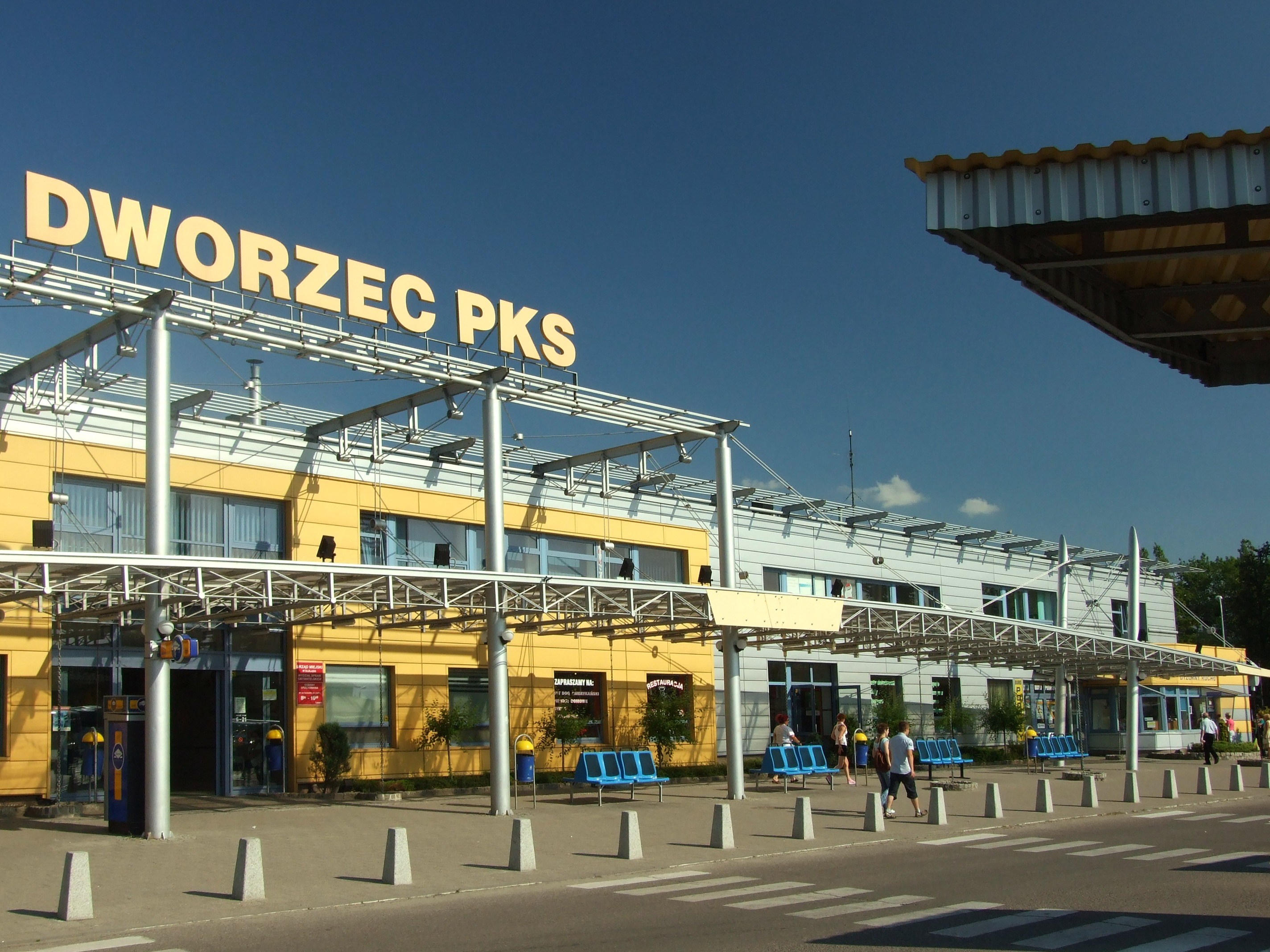 New building of main bus terminal in Elbląg, Poland